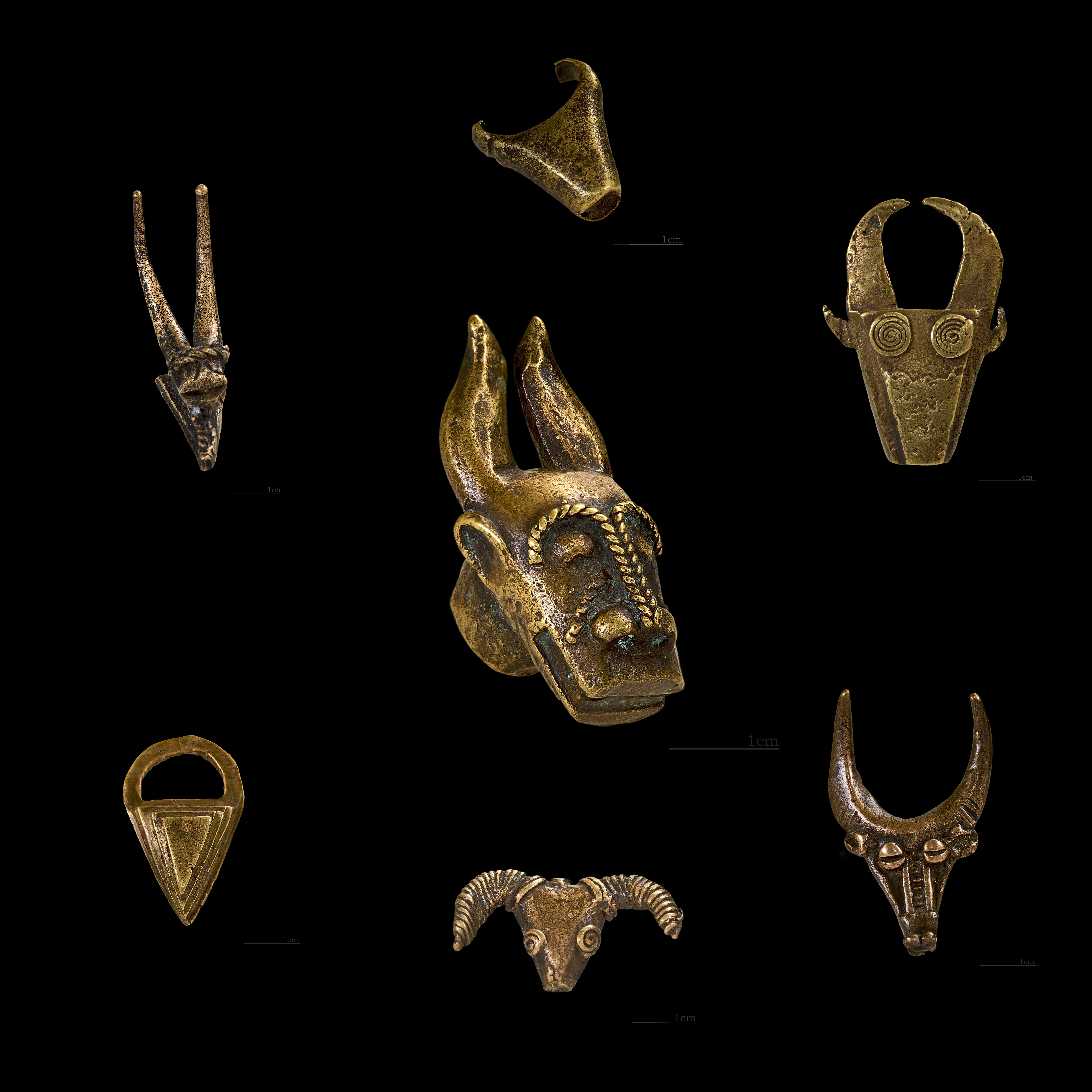 This peson is a multiple of the weight of the seed of Abrus precatorius (0.14 to 0.19 g) which was used as reference for any weighing. Gold was extremely important in the economic and political life of the Akan kingdoms of southern Ghana and Côte d'Ivoire. Until the mid-nineteenth century, gold dust was the primary form of currency in the region. In order to measure precise amounts of gold, an elaborate system of weights, usually made of cast brass, developed by the seventeenth century. Beyond the usual function, the weigh of gold, often refer to political power, reproducing in miniature regalia, and some virtues such as wisdom proverbs generally comment. Today, the national currency has replaced the precious metal and the system weight is no longer relevant since the early twentieth century.